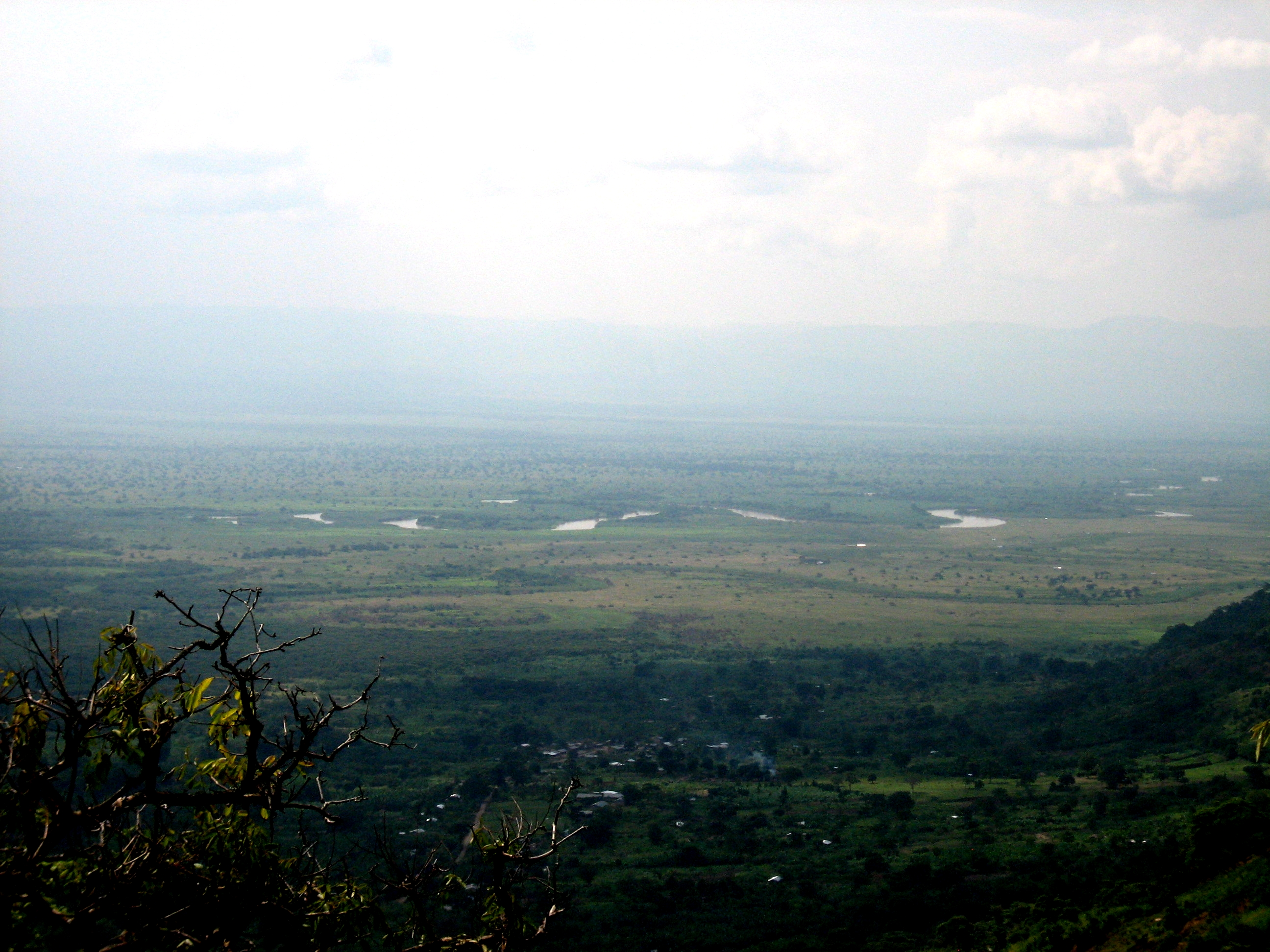 The Semliki River in the Albertine Rift of the Great Rift Valley, constituting the border between Uganda and the DR Congo. The photo was taken from the old Bundibugyo road crossing in the Bundibugyo District, southwest of Lake Albert in the northern foothills of the Rwenzori Mountains, Uganda.